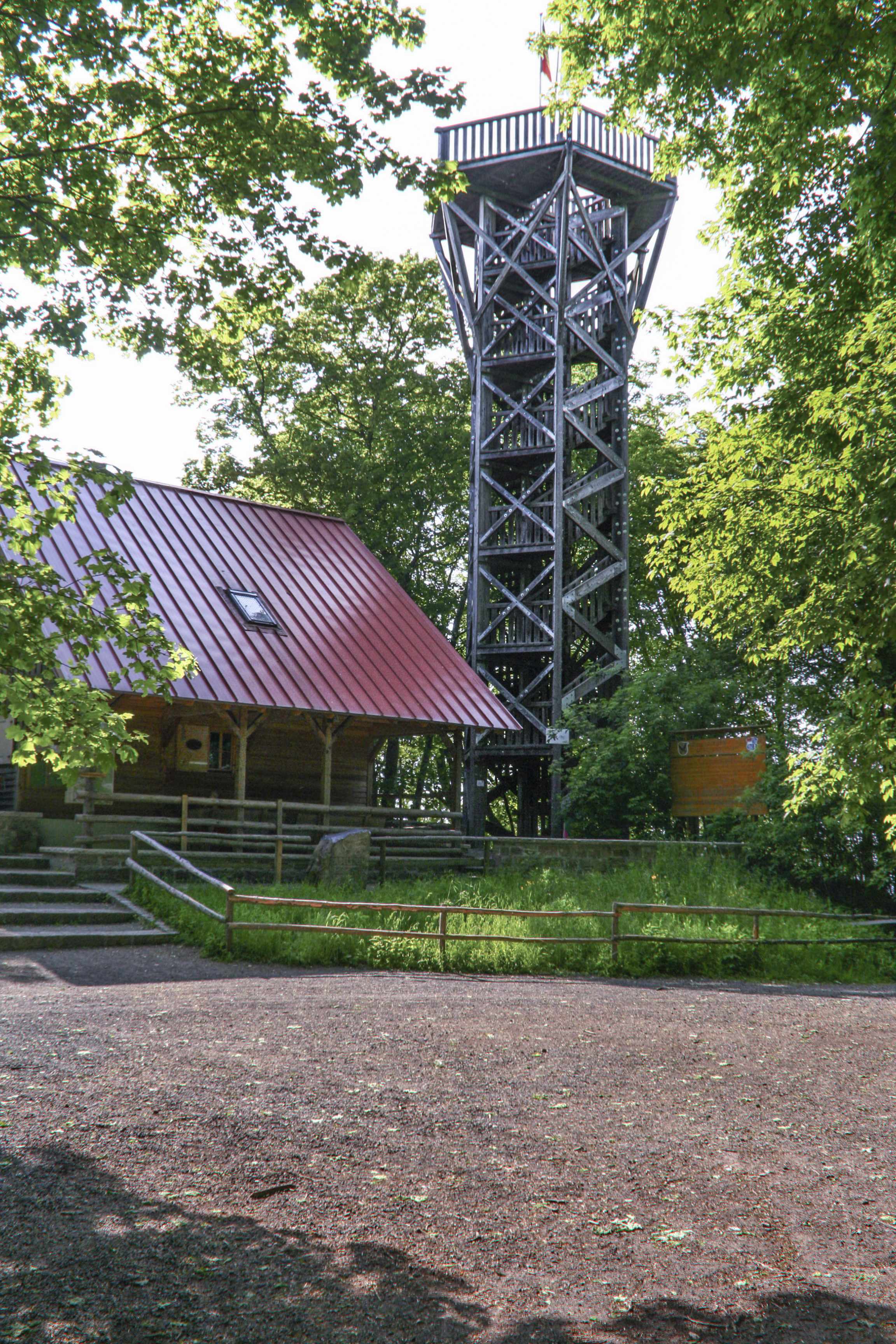 Observation tower on top of Zabelstein.